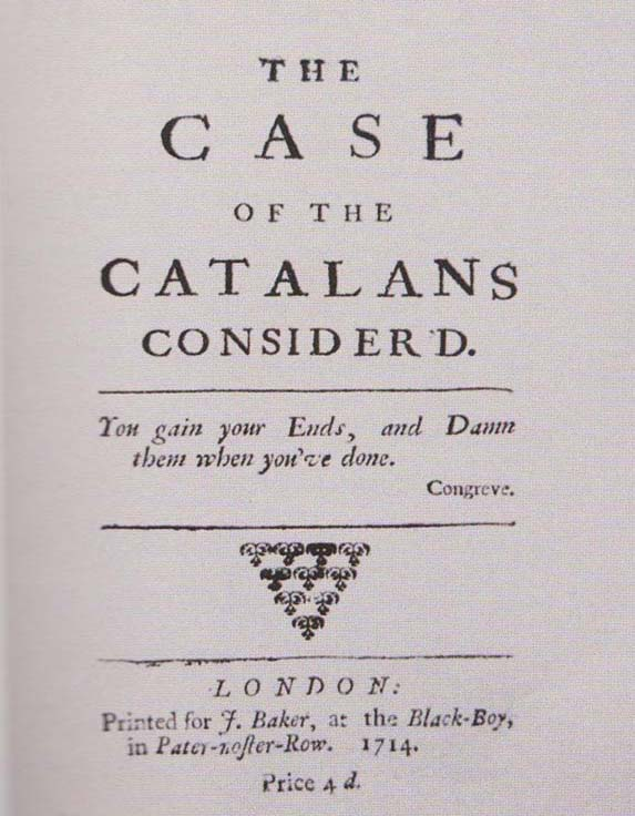 The Case of the Catalans considerd